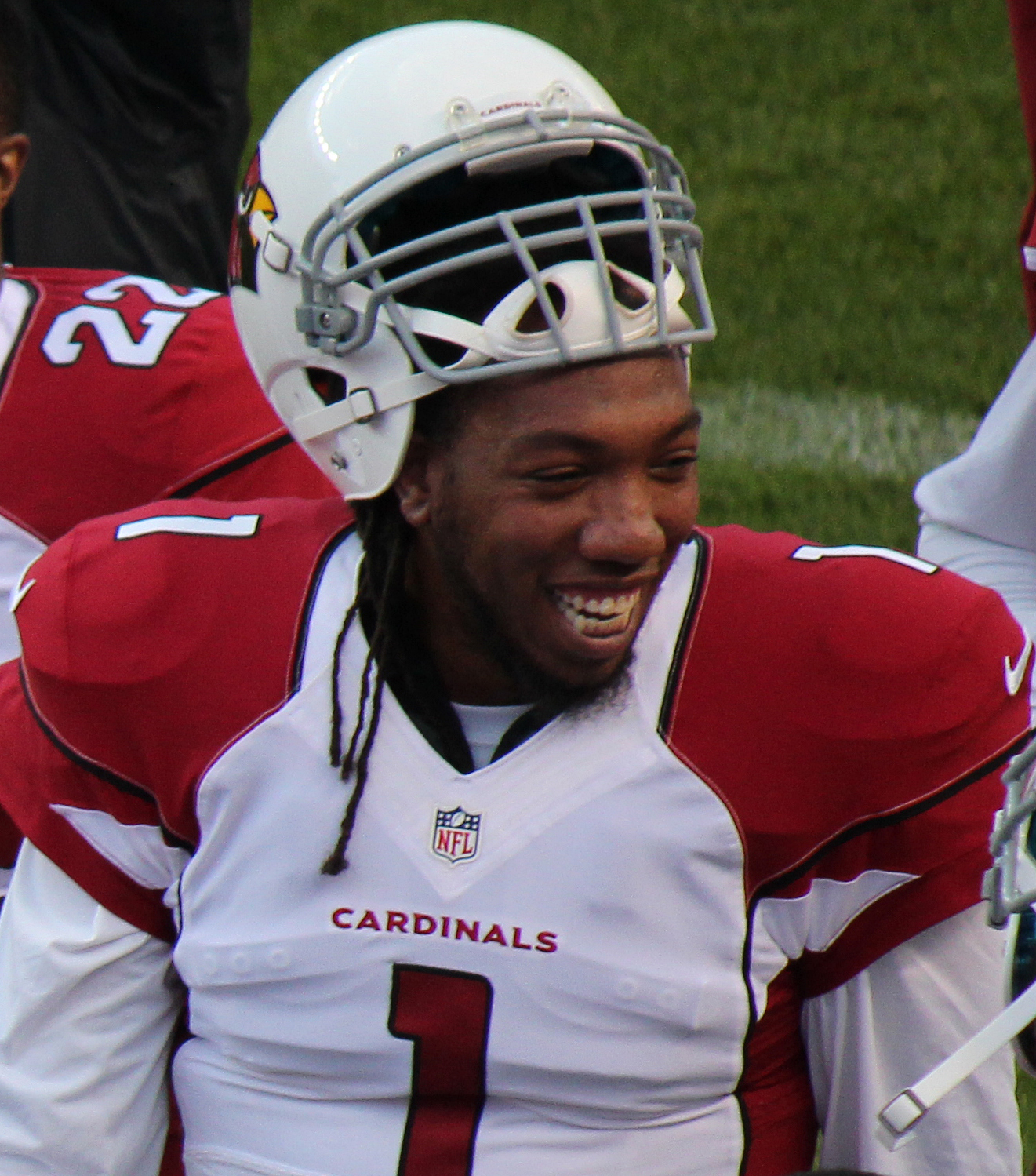 Phillip Sims, a player on the National Football League.